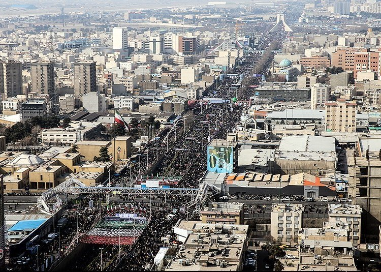 Anniversary of Islamic Revolution in Tehran- 11 February 2018